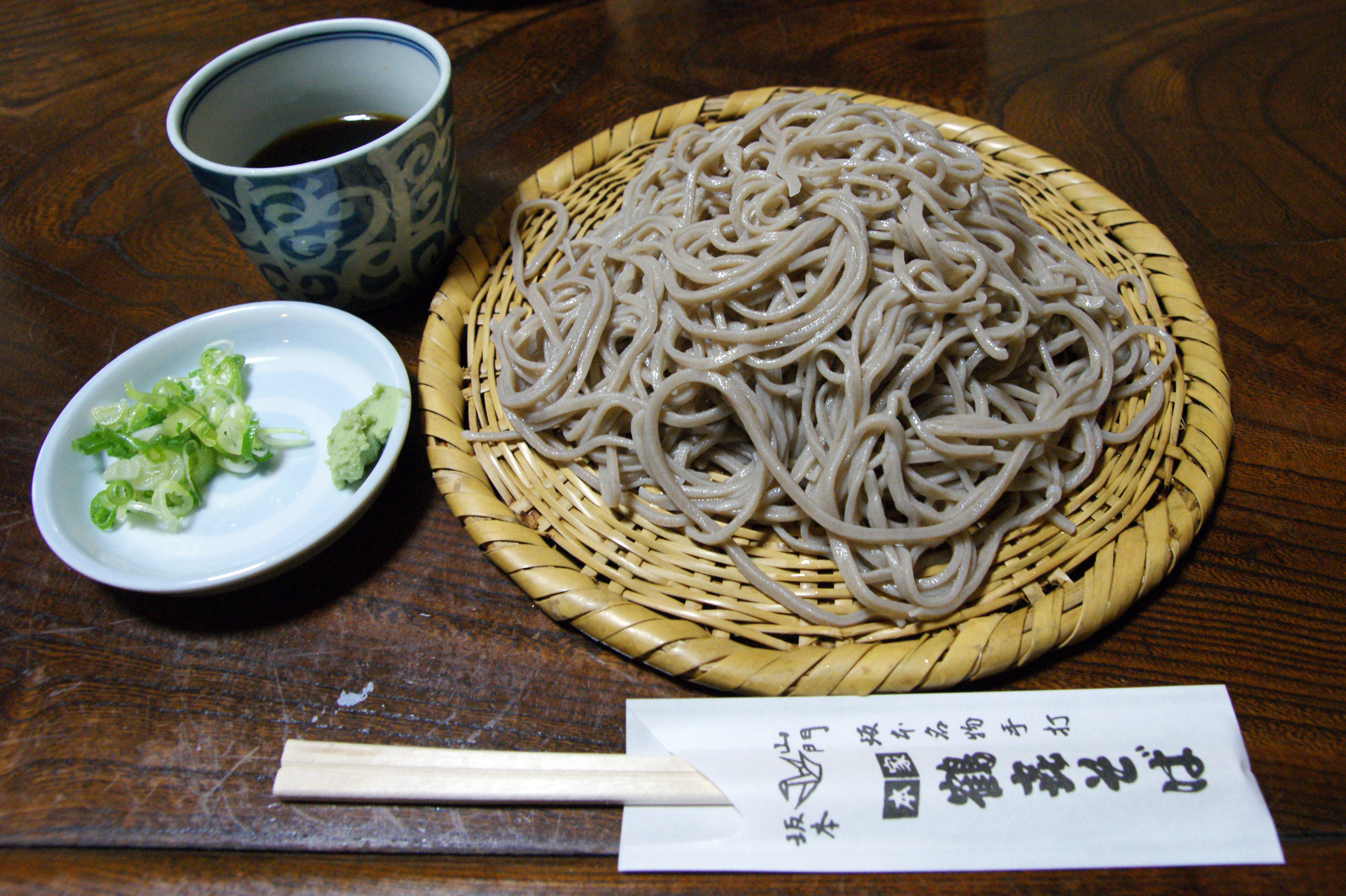 Tsuruki-soba in Otsu, Shiga prefecture, Japan